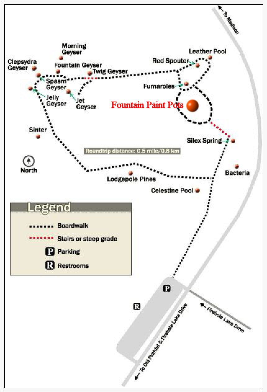 Fountain Paint Pots, Lower Geyser Basin, Yellowstone National Park, Wyoming